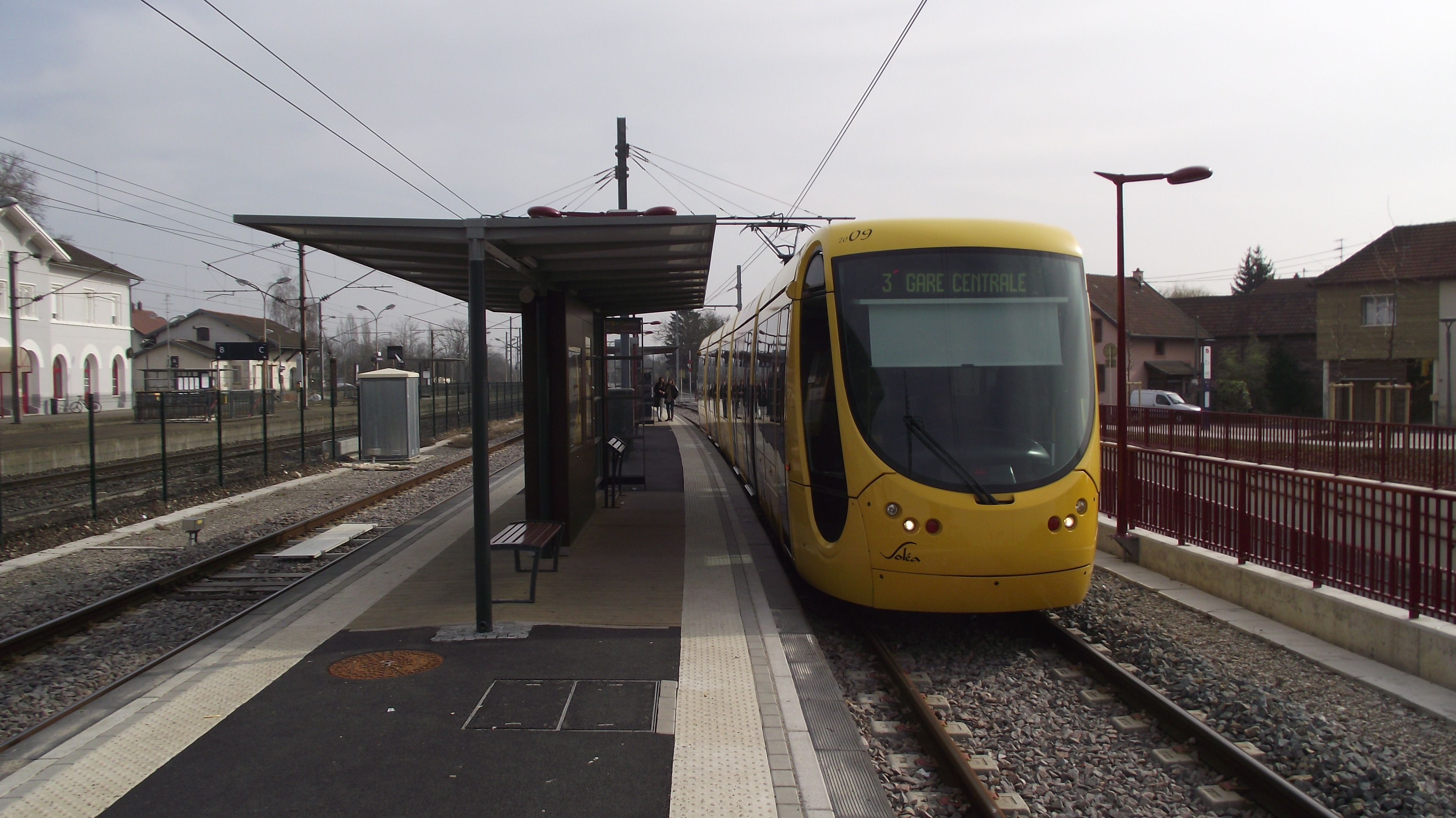 Tram T3 in Lutterbach at its endpoint.